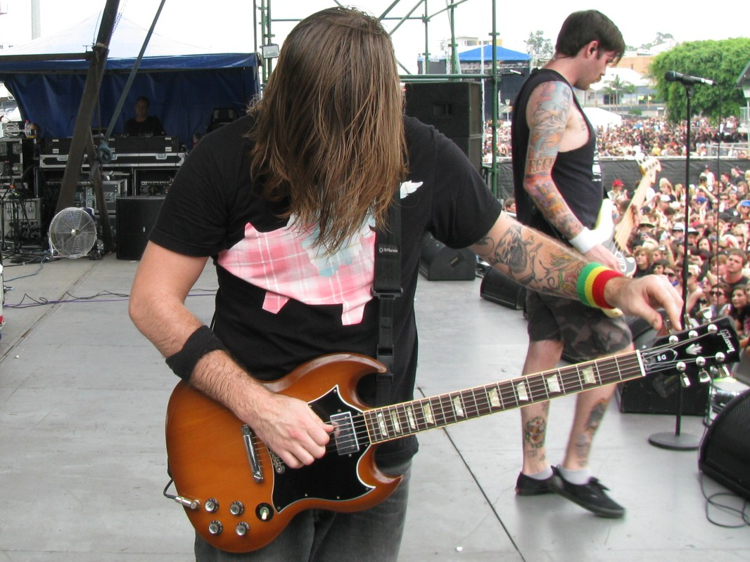 Bradford lets down his hair in Brisbane